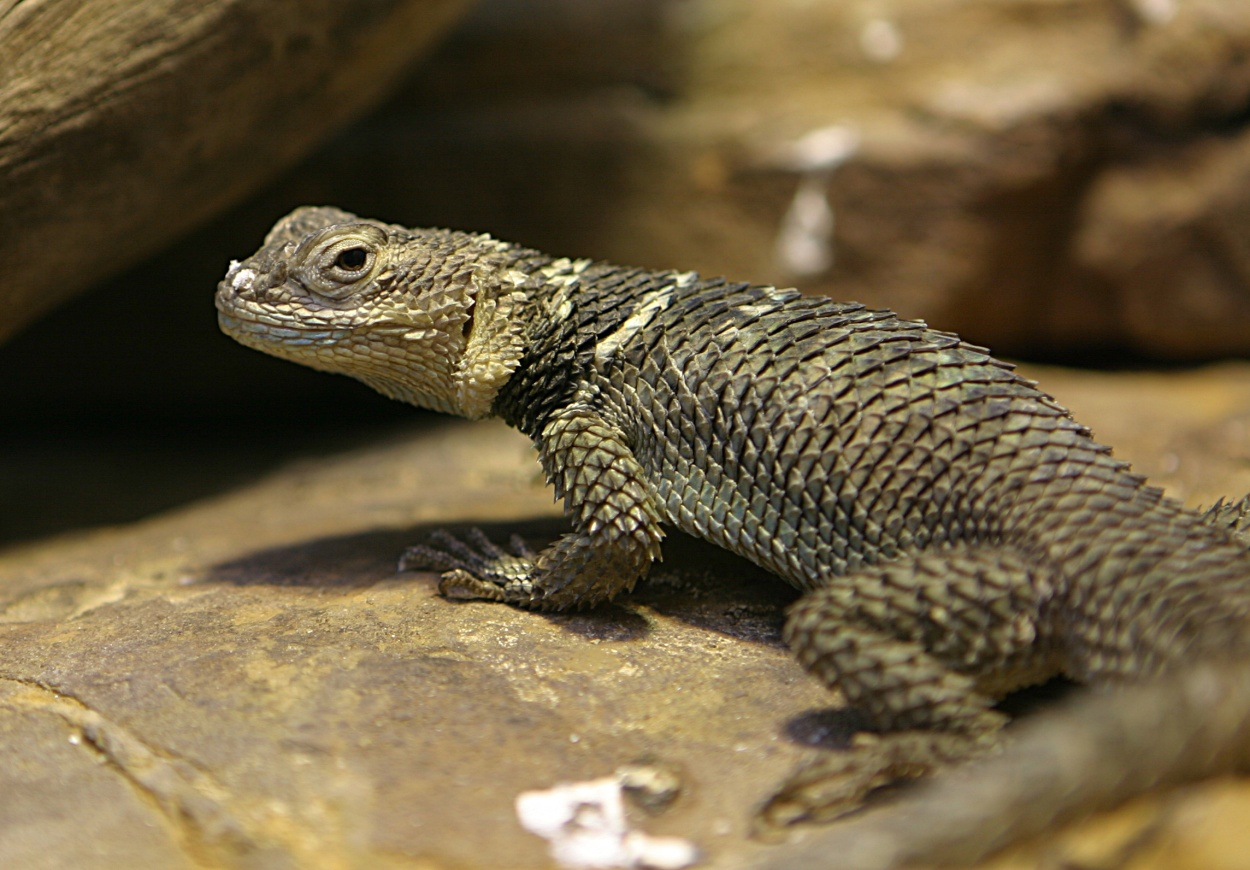 A Blue Spiny Lizard (Sceloporus serrifer cyanogenys) at the Houston Zoo